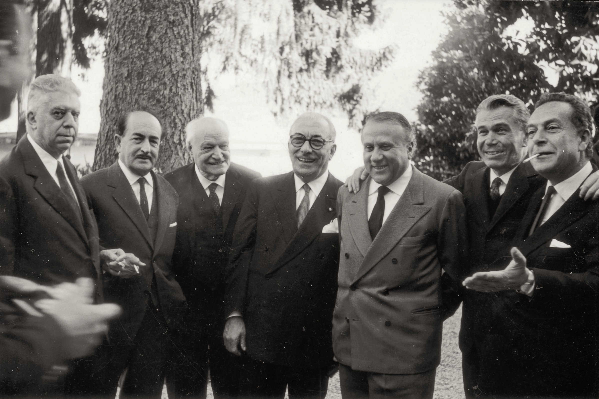 Italian poets Salvatore Quasimodo, Giuseppe Ungaretti and Eugenio Montale in a group photo with publisher Alberto Mondadori, artists Renato Guttuso and Francesco Messina and author and journalist Arturo Tofanelli.